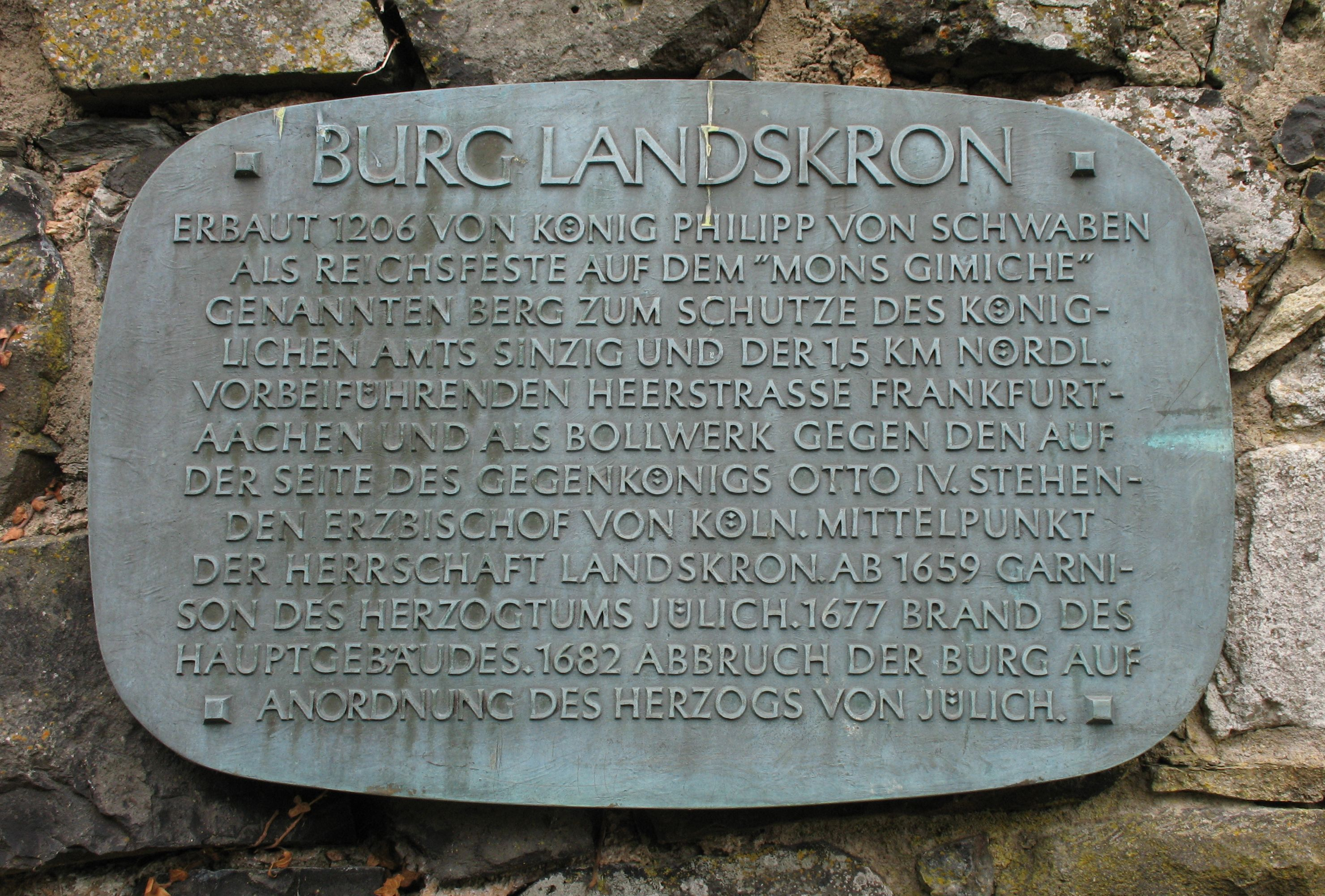 Plaque in Bad Neuenahr-Ahrweiler in Rhineland-Palatinate, Germany